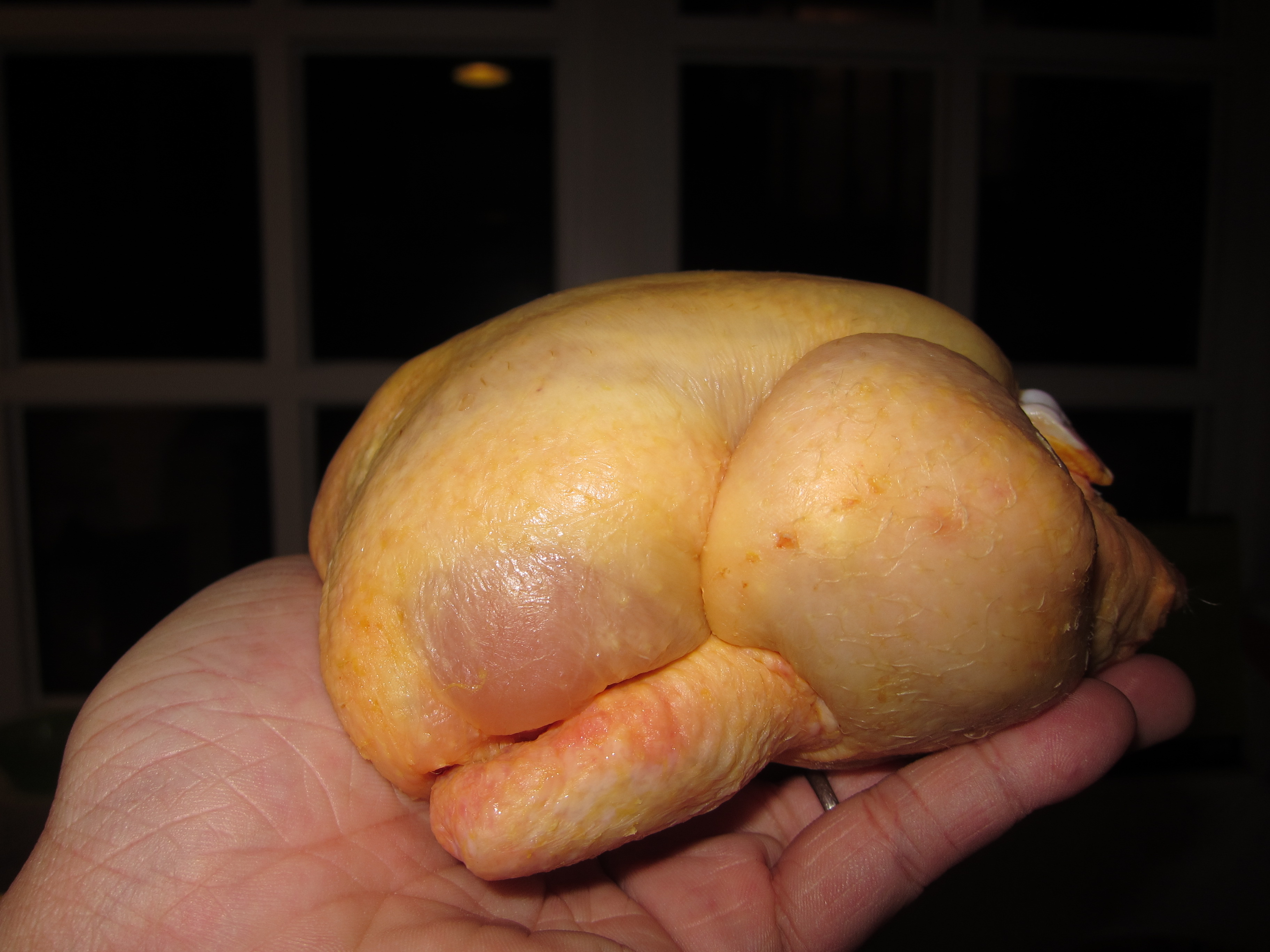 A 552 gram poussin chicken resting on a hand.